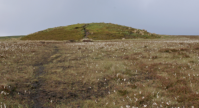 Round Loaf Tumulus Believed to be around 3500 years old, as yet there has been no full archaeological investigation. It measures about 50m north to south, 45m east to west.